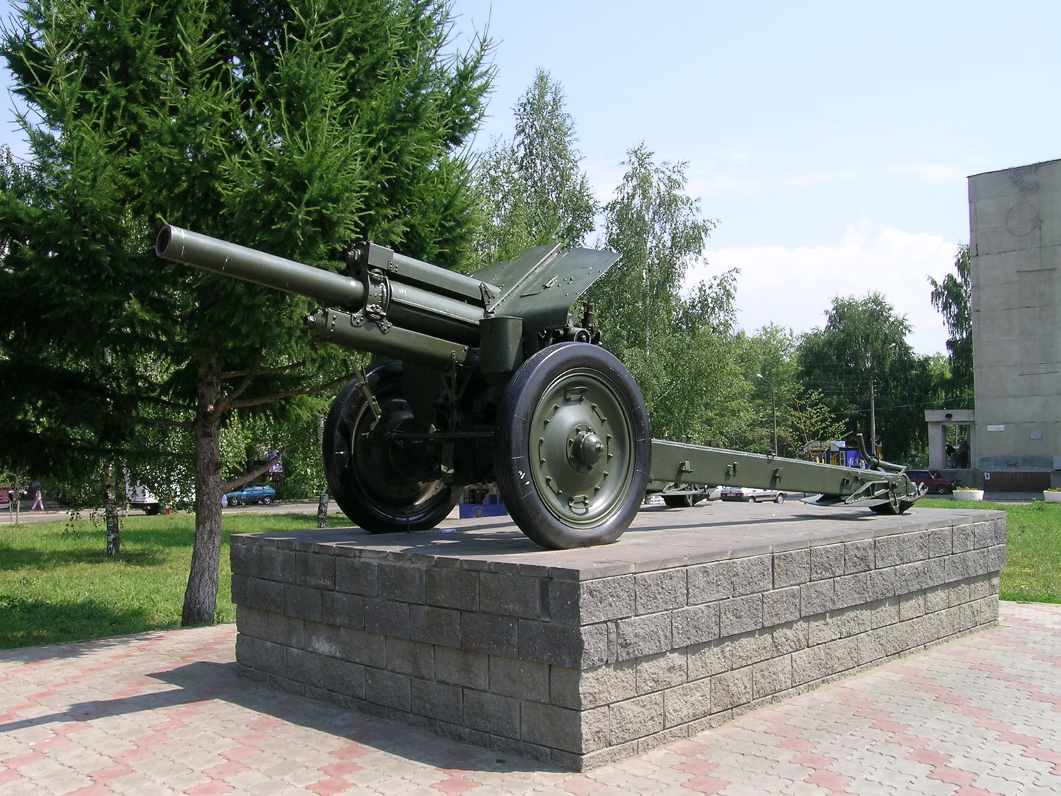 122-mm howitzer model 1938 (M-30) as a monument in Great Patriotic War memorial at Marshal Zhukov Square, city of Nizhny Novgorod, Russia. General view. Author: S. Filatov, 2006